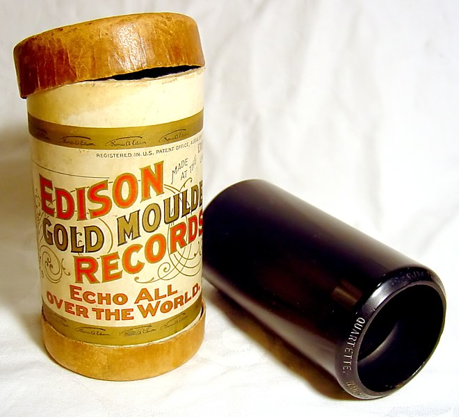 Edison Gold Moulded Cylinder Record, ca. 1904 License: GNU FDL